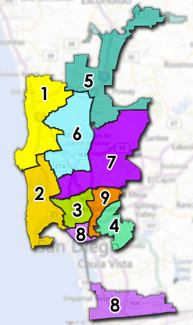 Graphic of the San Diego City Council District map as of 2012 Image is in the public domain, as indicated by the disclaimer of the website of the City of San Diego, found here: An excerpt: Unless a copyright is indicated, information on the City of San Diego Web site is in the public domain and may be reproduced, published or otherwise used with the City of San Diego's permission. We request only that the City of San Diego be cited as the source of the information and that any photo credits, graphics or byline be similarly credited to the photographer, author or City of San Diego, as appropriate